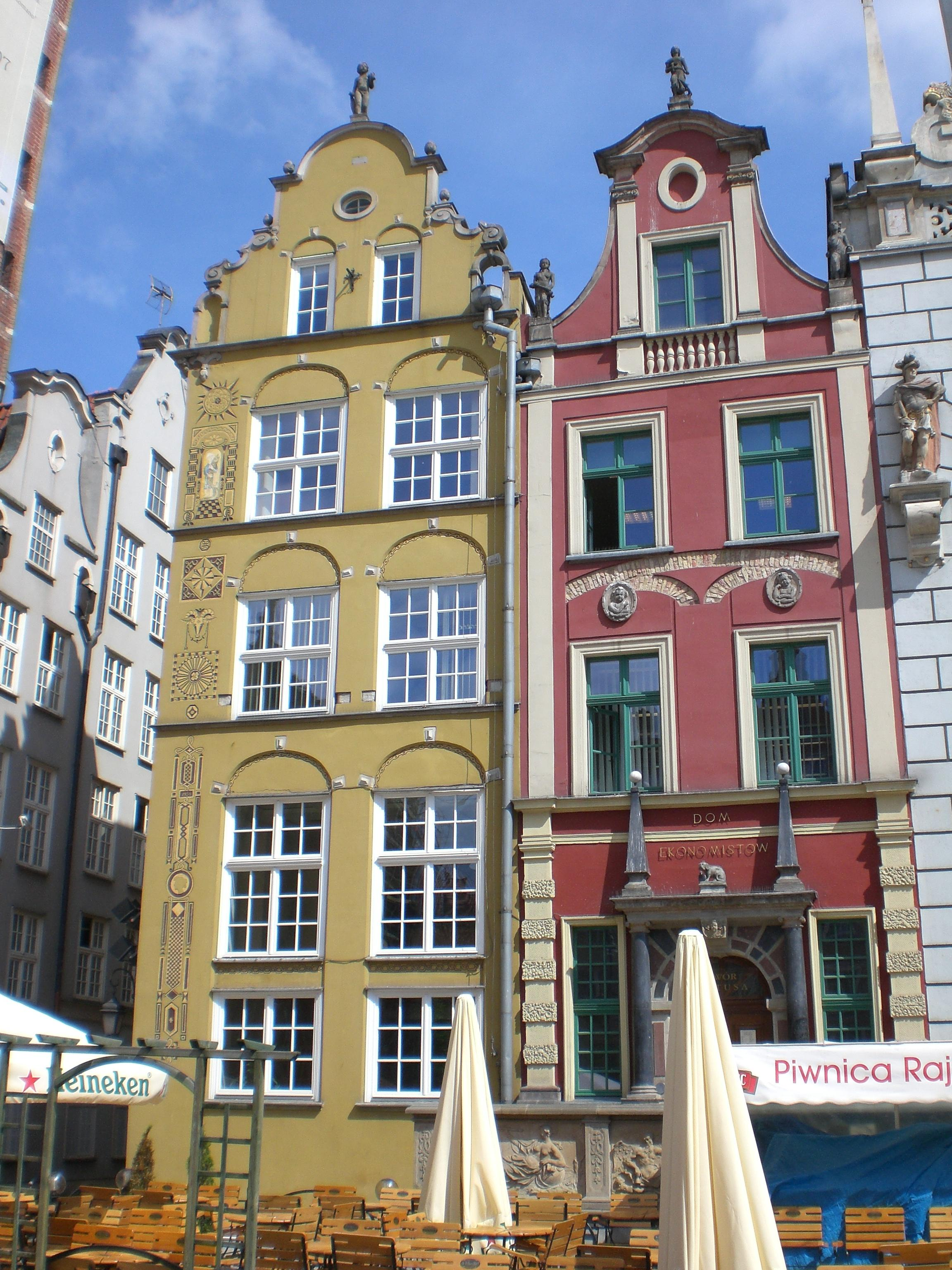 Main Town of Gdańsk